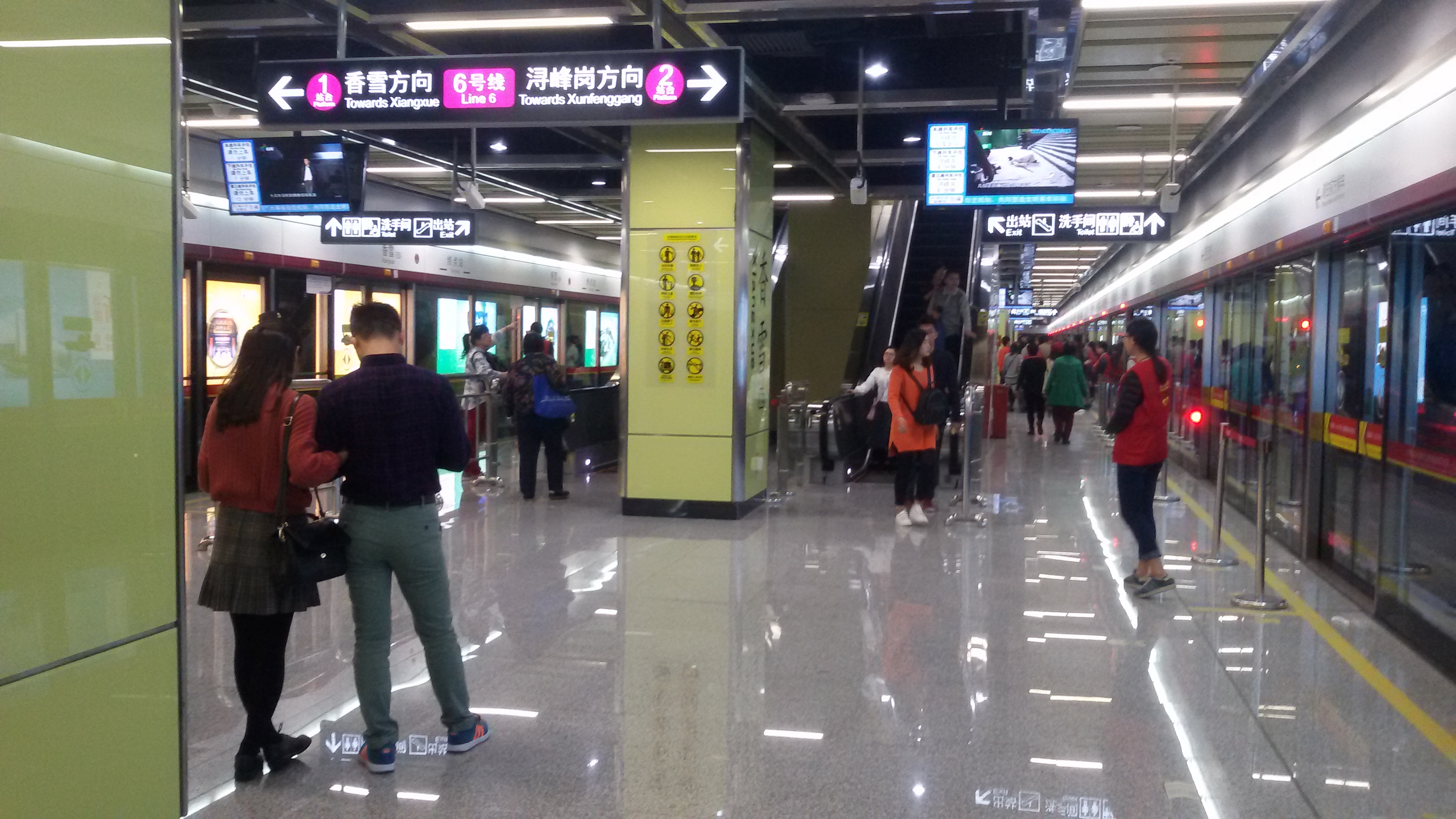 Station Platform for Xiangxue Station in Guangzhou Metro.